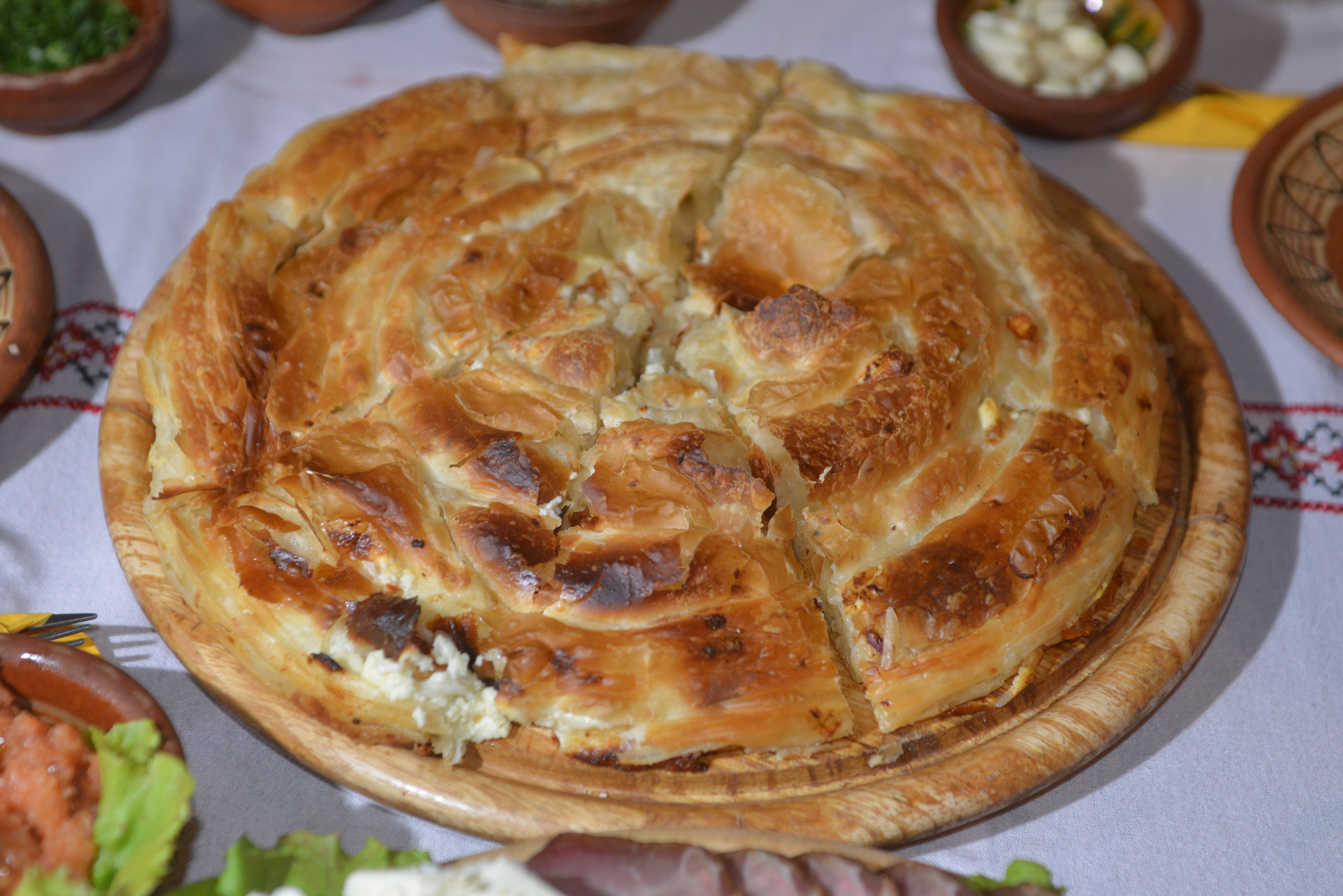 Traditional macedonian baked pie